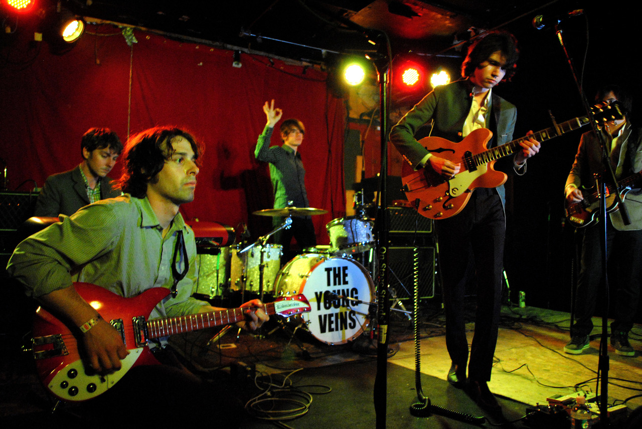 The Young Veins setting up for a show at Jack Rabbits in Jacksonville, FL on March 27th, 2010.